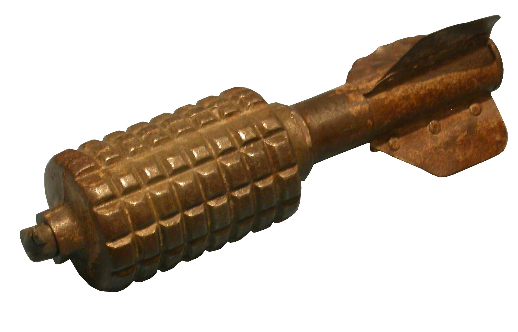 German "Pigeon" grenade 1916 model, weight: 1,85 kg (in coll. Mémorial de Verdun)